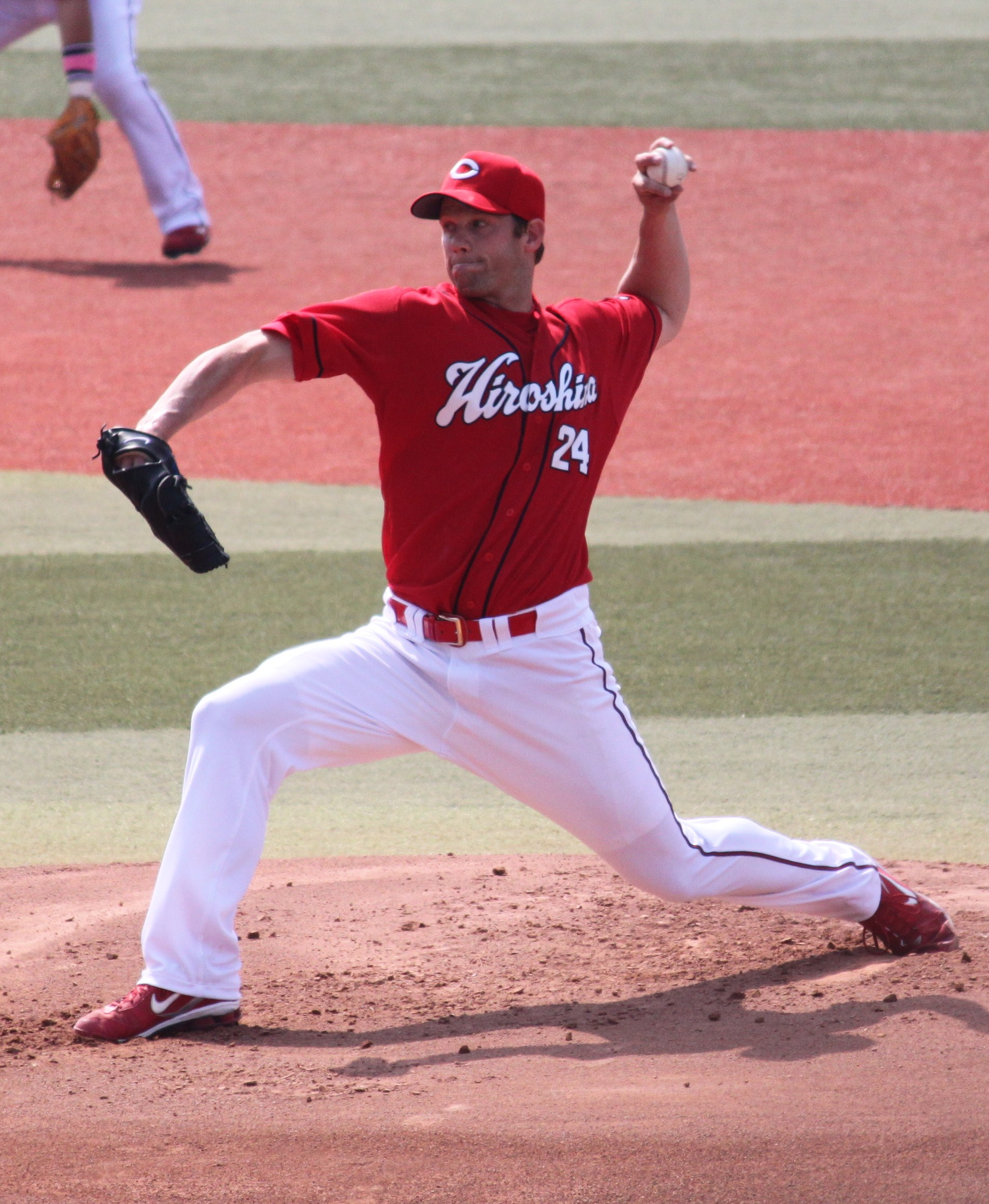 Eric Stults, pitcher of the Hiroshima Toyo Carp, at Yokohama Stadium.